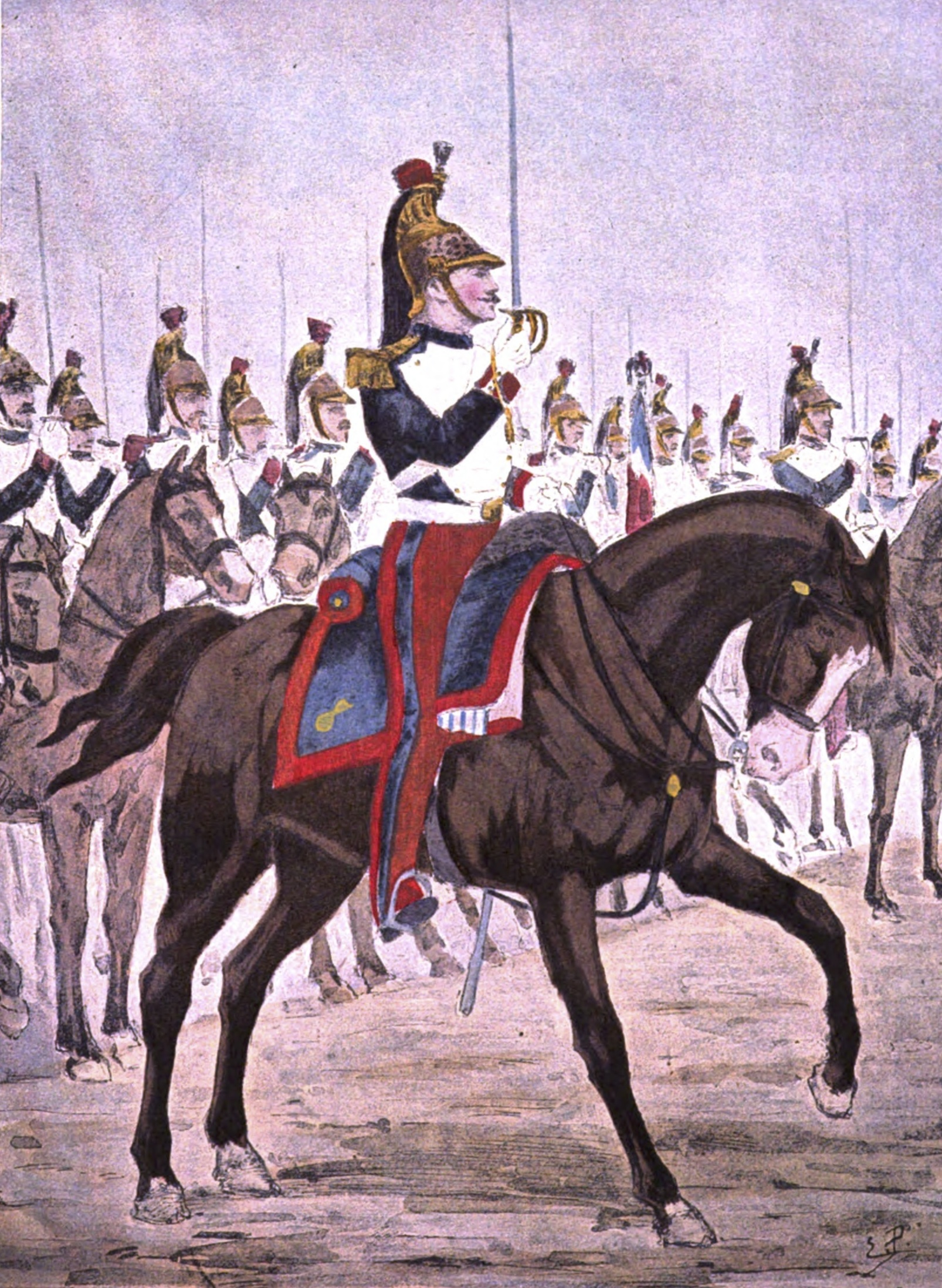 Dragoons of the 2e Régiment de Dragons in 1853